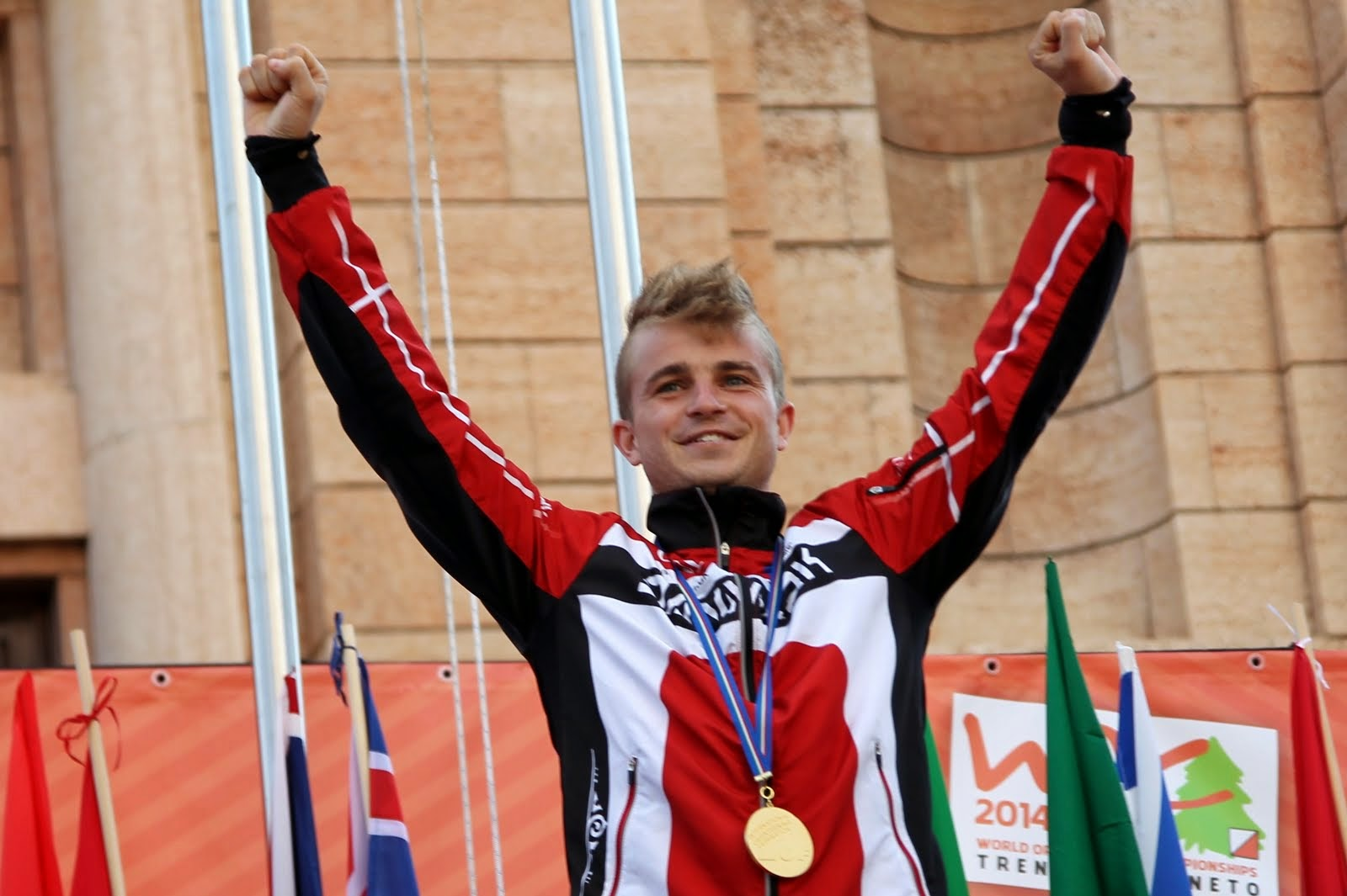 Søren Bobach at the WOC 2014 in Italy.